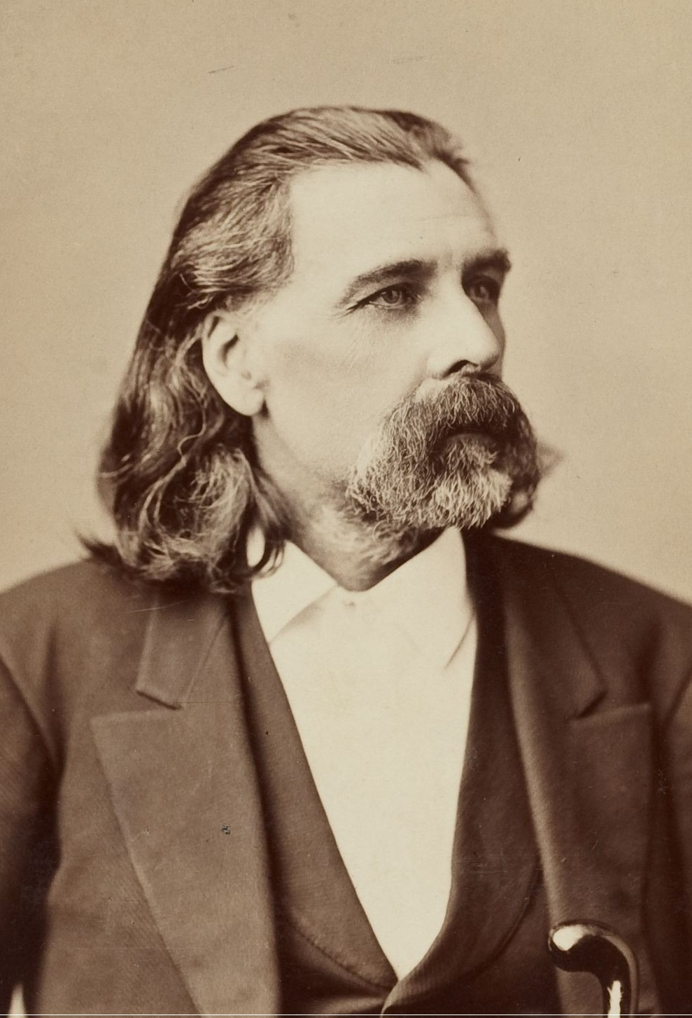 Cabinet card image of American writer and humorist Josh Billings, aka Henry Wheeler Shaw (1818-1885). TCS 1.2486, Harvard Theatre Collection, Harvard University